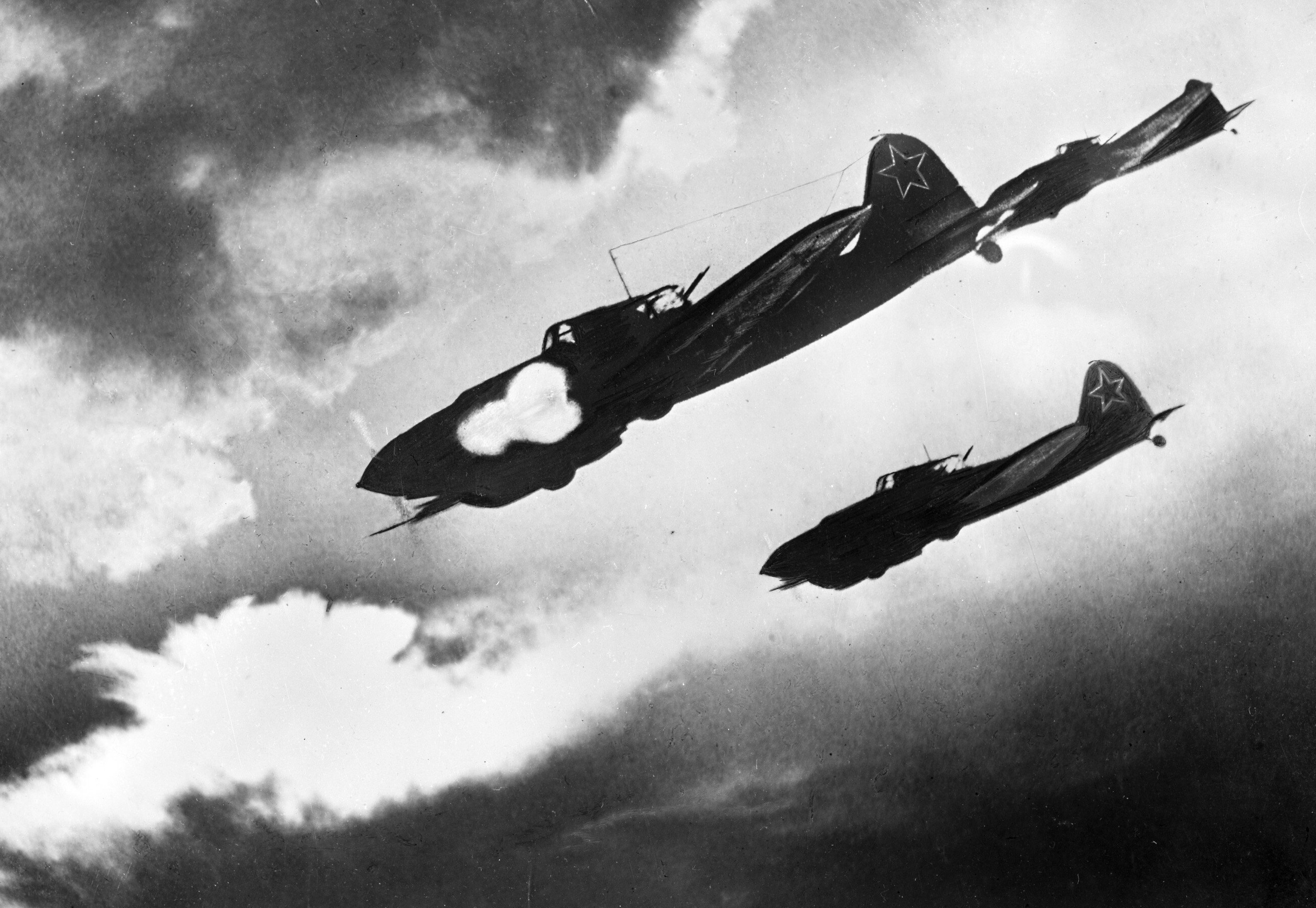 “IL-2 attacking”.. Soviet IL-2 combat aircraft attack an enemy formation. The Kursk Bulge (Operation Citadel), The Voronezh Front, Russia.